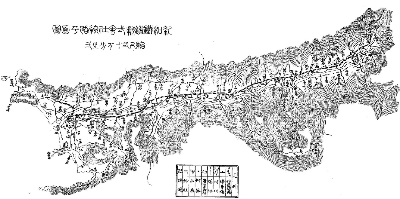 Route map of Kiwa railway (part of current JR Wakayama line), Nara/Wakayama, Japan